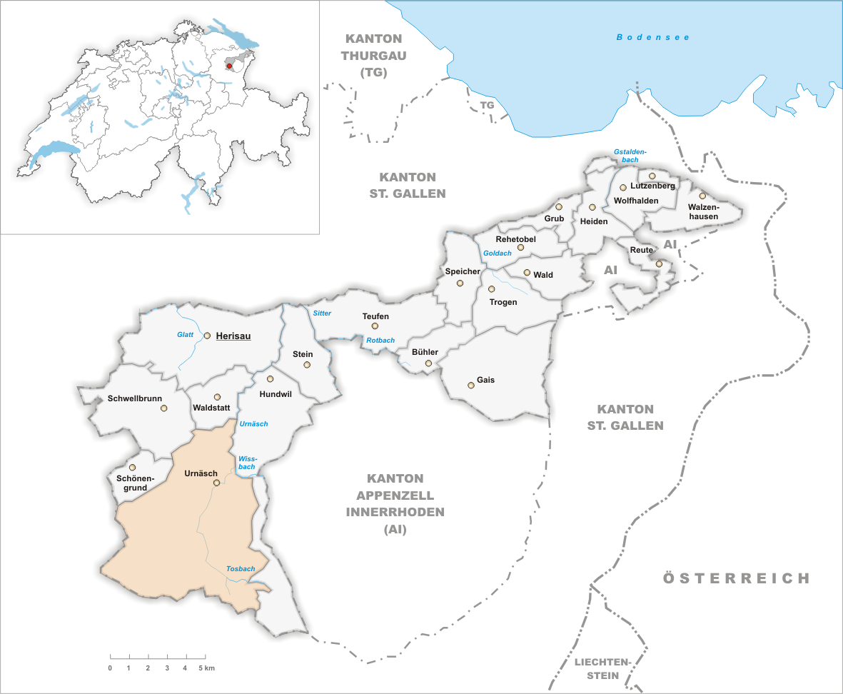 Municipality of Urnäsch